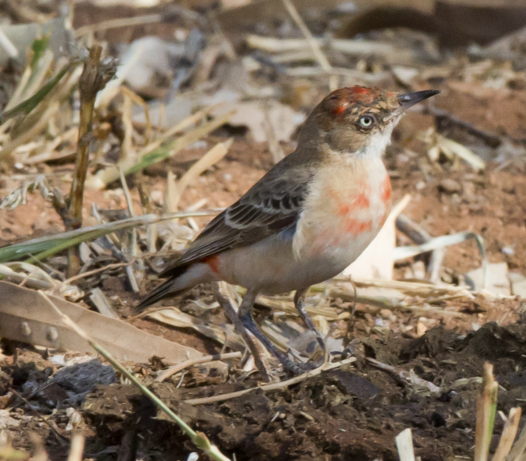 A Crimson Chat in Karratha, Pilbara, Western Australia, Australia.